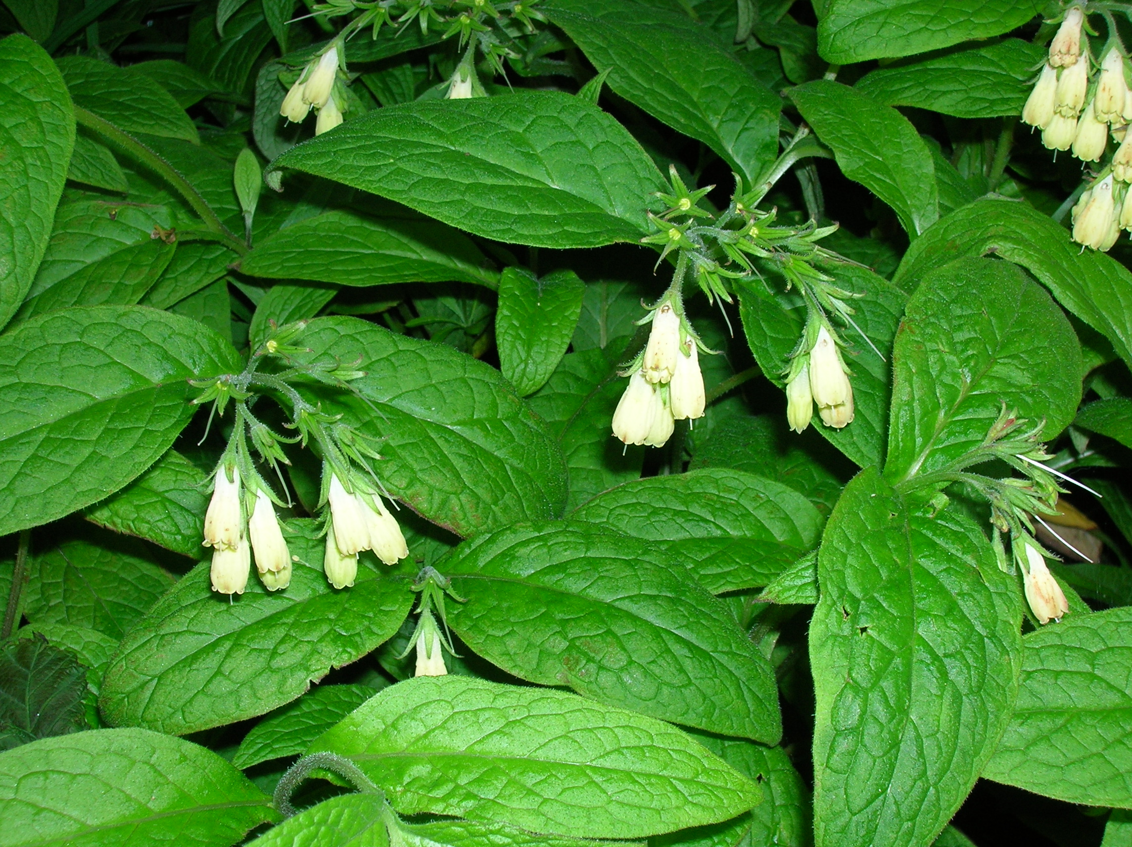 Tuberous Comfrey (Symphytum tuberosum) at Eglinton, North Ayrshire, Scotland.